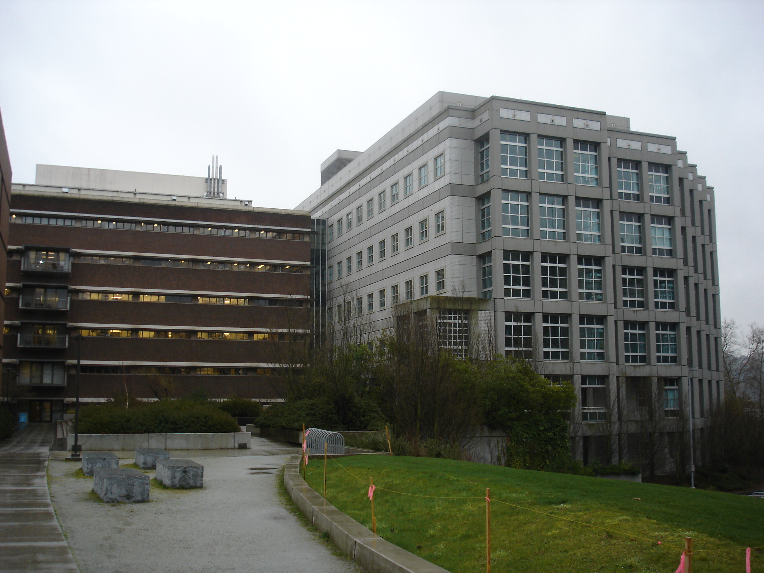 Magnuson Health Sciences Building (J Wing on the left and K Wing on the right) viewed from the green roof of the Foege Building loading dock.